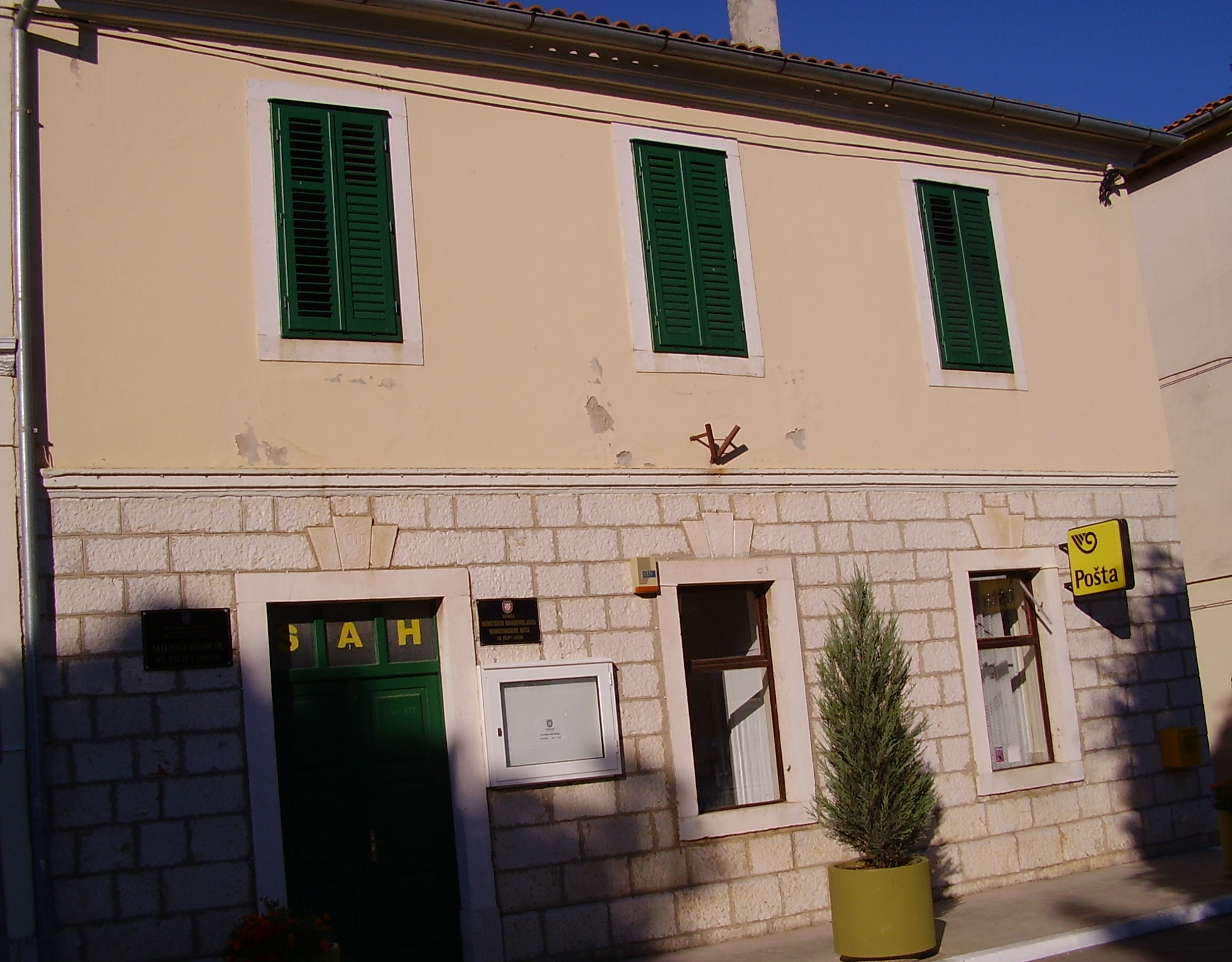 Post office in Sveti Filip i Jakov (Croatia)